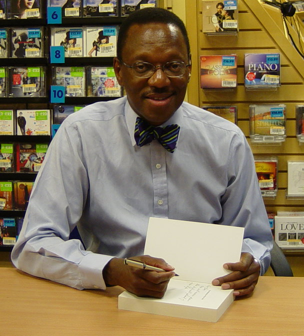 Alvin Hall at booksigning